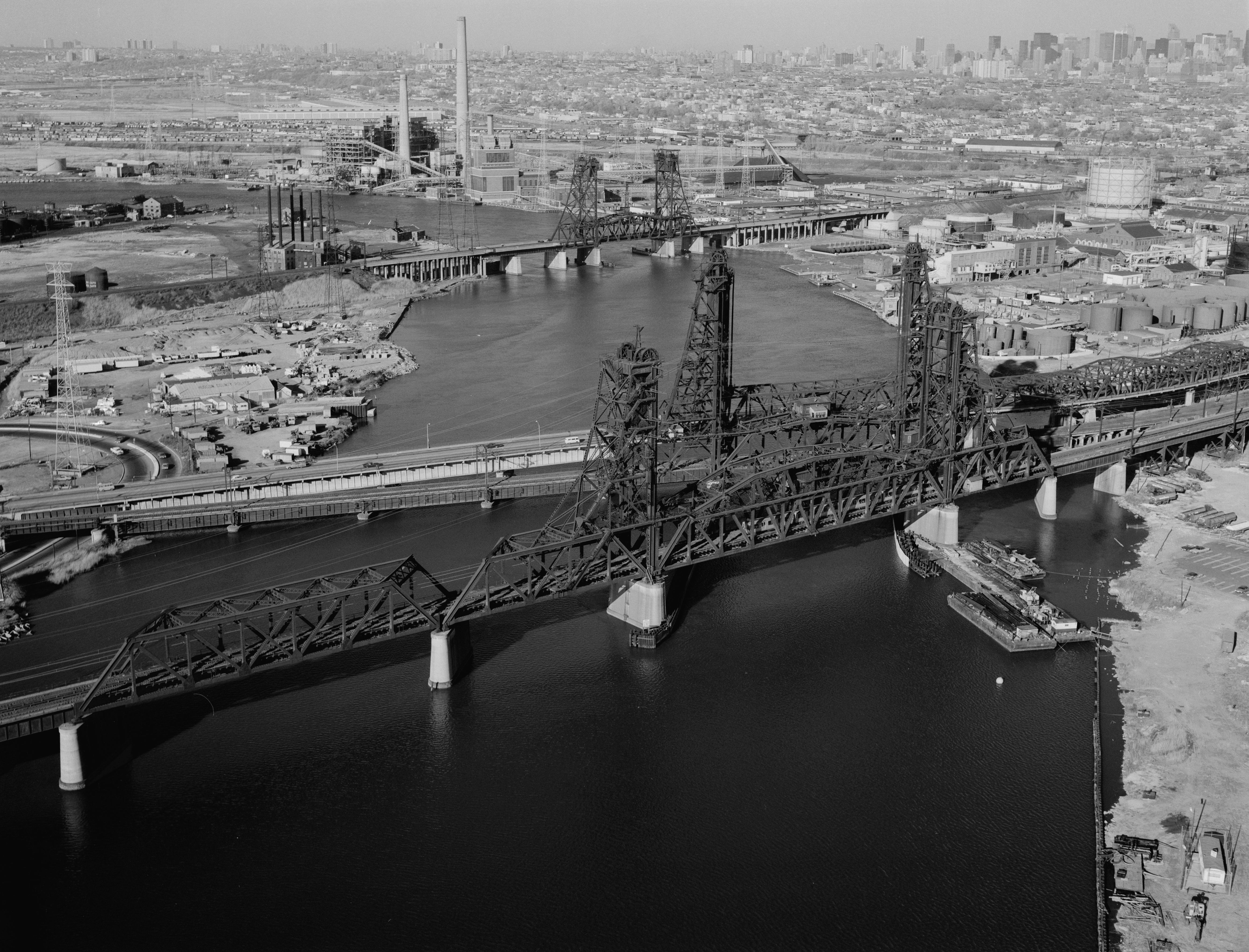 Aerial view of vertical lift bridges spanning the Hackensack River in Hudson County, New Jersey. Looking northeast. The PATH Lift Bridge, built in 1900 by the Pennsylvania Railroad, is in the foreground. The Harsimus Branch Bridge (Conrail), Wittpenn Bridge (Newark Turnpike), and Lower Hack Lift bridge (NJ Transit, formerly Erie-Lackawanna RR) are behind it.